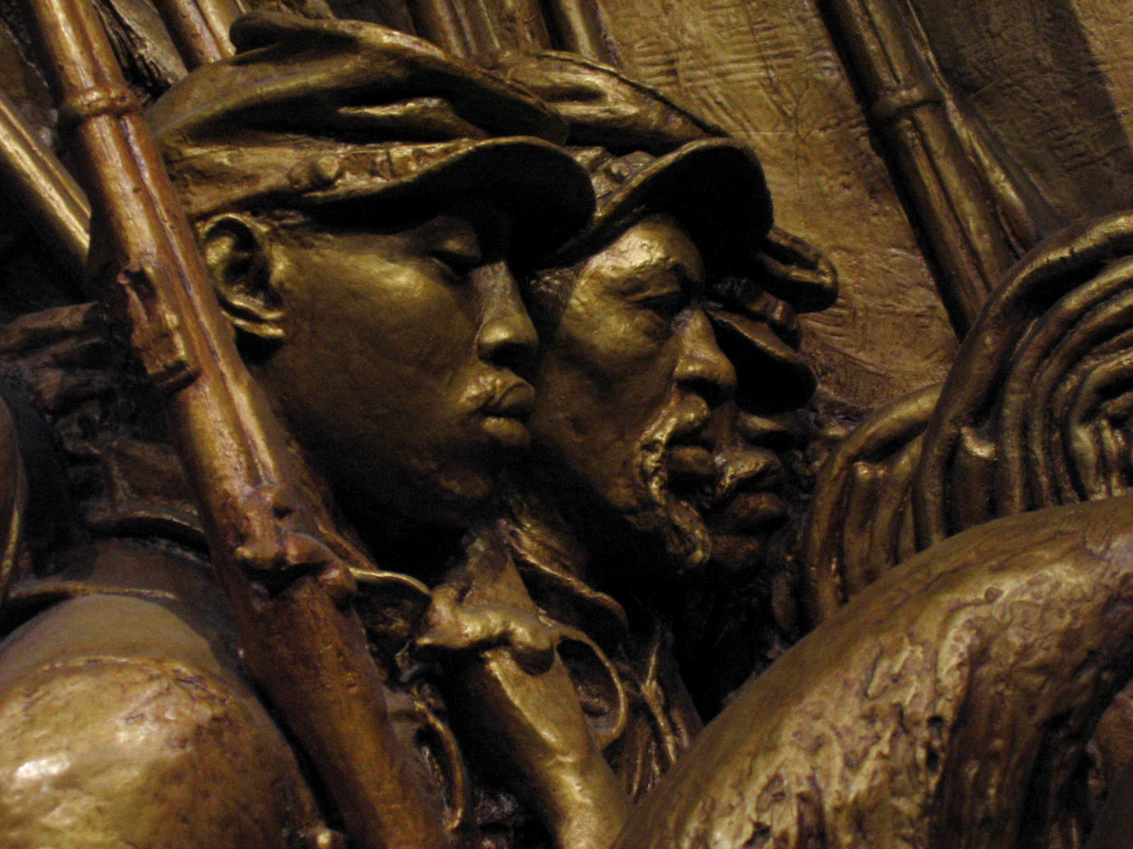 Memorial to Robert Gould Shaw and the Massachusetts Fifty-Fourth Regiment, 1884 - 1897. Detail of African-American soliders. Augustus Saint-Gaudens (1848 - 1907). Plaster original,[1] National Gallery of Art, Washington, D.C..